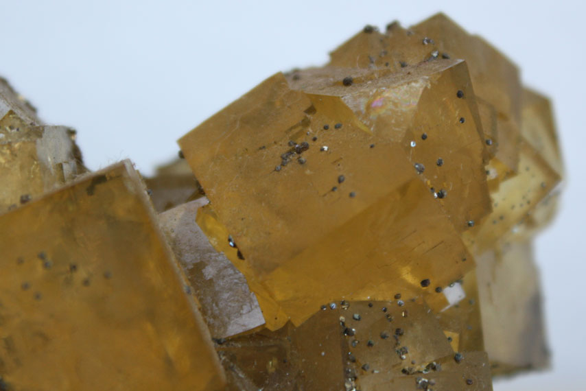 Fluorspar of Villabona, Asturias, Spain